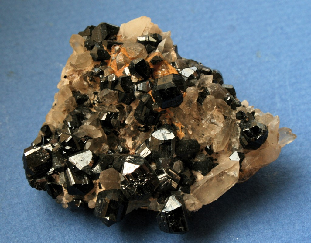 Cassiterite, 80mm plate of cassiterite and quartz crystals Locality: Mt Bischoff mine, Waratah, Waratah district, Tasmania, Australia - Exposed in the Tasmanian Museum, specimen X6066